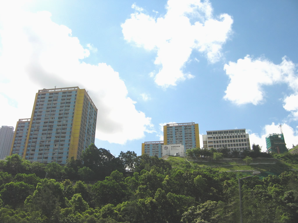 Lai Yiu Estate, Kwai Chung, New Territories, Hong Kong